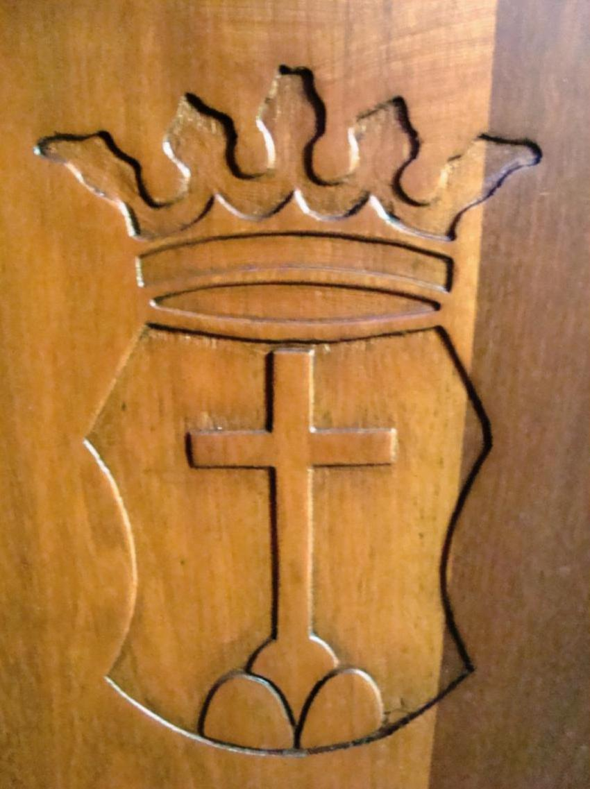 Saint Cajetan Church, Gustavo A. Madero, Federal District, Mexico : Coat of Arms of Theatines